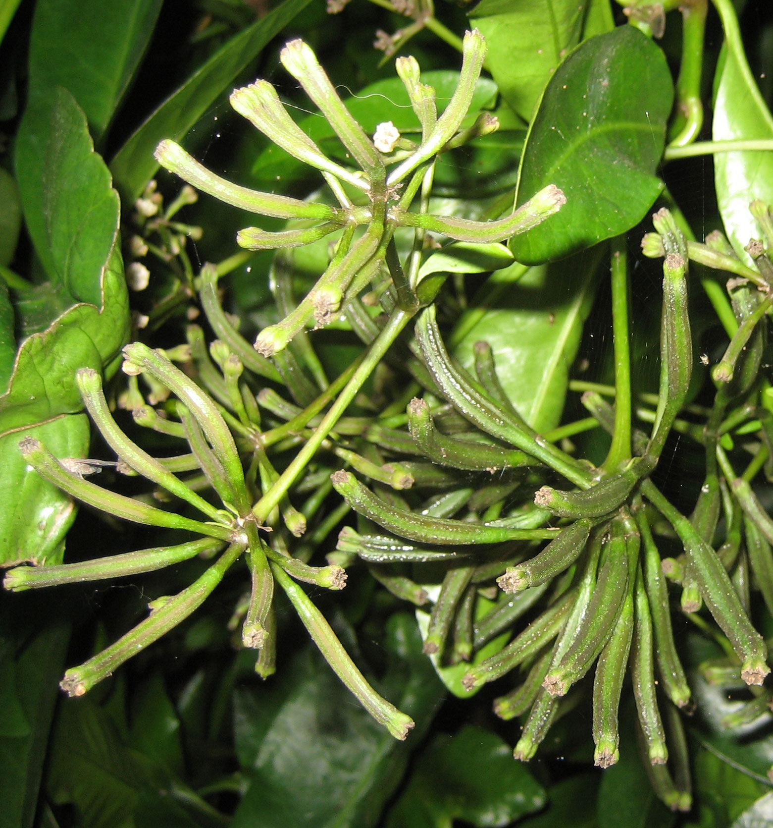 immature fruit of Pisonia brunoniana, Auckland New Zealand. Familia: Nyctaginaceae, New Zealand, Polynesia, including Hawaii. Common name: Parapara (New Zealand English, Māori), Bird-catching tree. Name in Hawaii: Papala kepau.